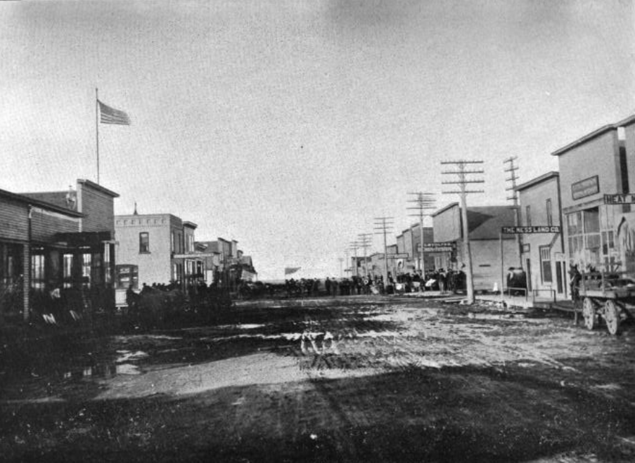 Photo of Main Street in Souris, North Dakota